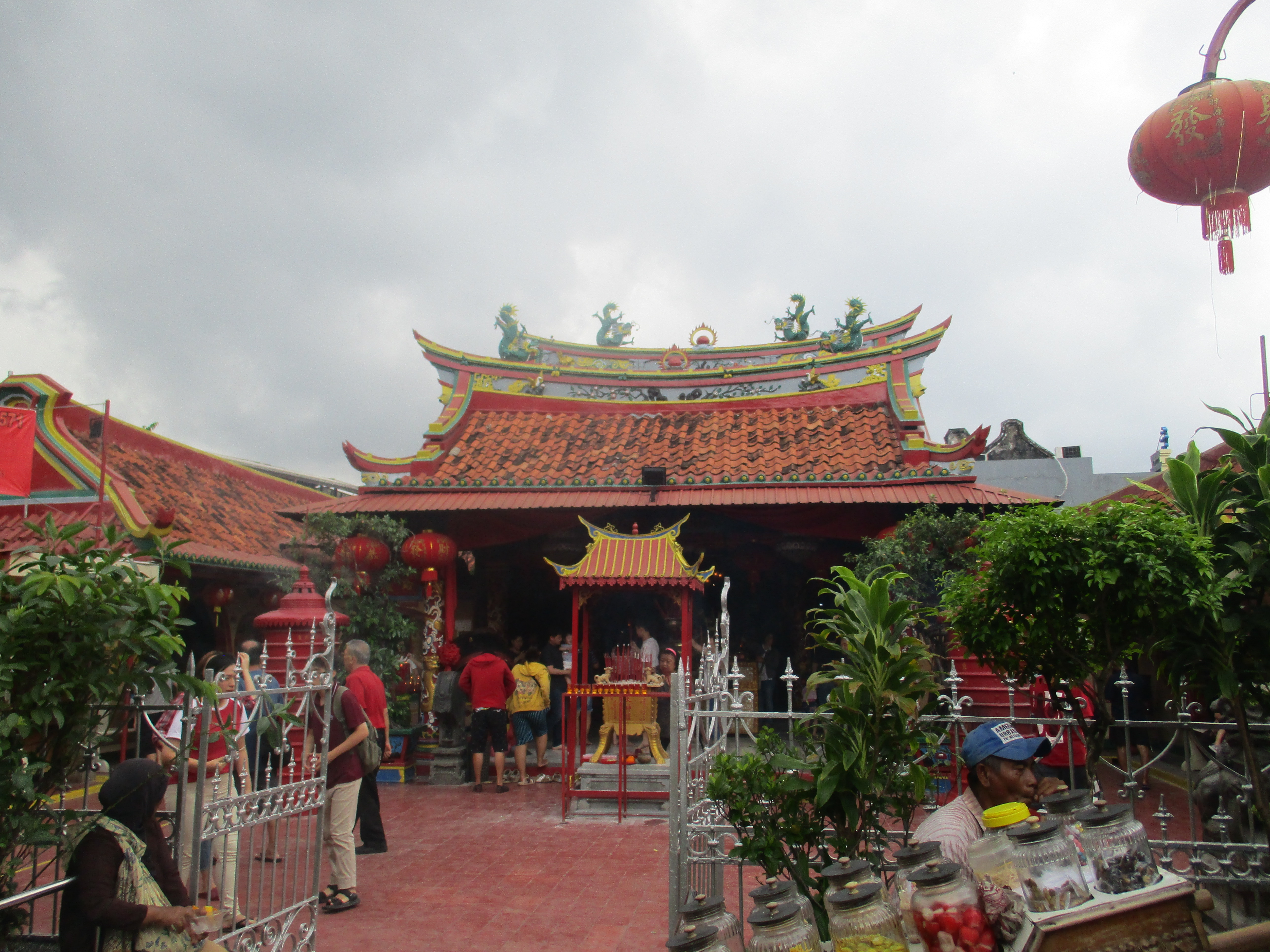 Boen Tek Bio, oldest Buddhist-Taoist Temple in Tangerang, Banten. 客家語/Hak-kâ-ngî: Vùn-tet-meu, he yit-kiên Fà-ngìn kú-meu chhai Pasar Lama （Ló-sṳ-chhòng）, Tangerang-sṳ ke yit-chak Ho̍k-ló-chông